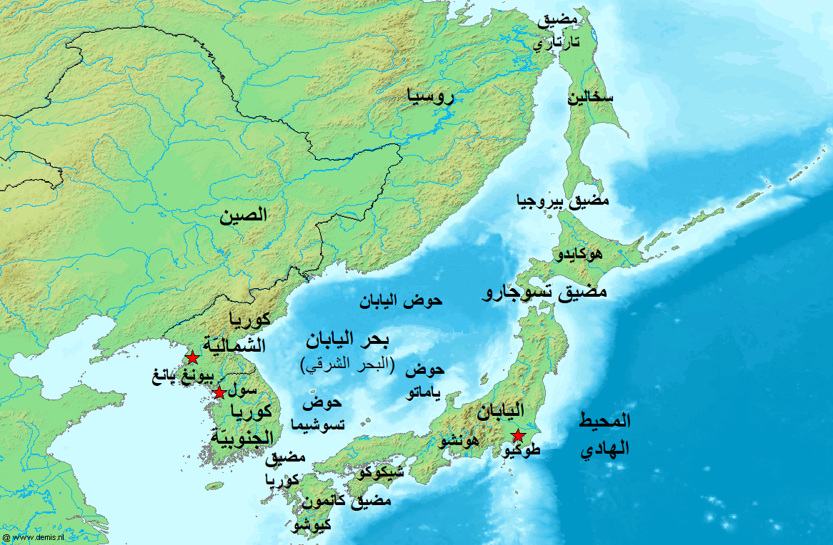 Geographical map for Japan sea.